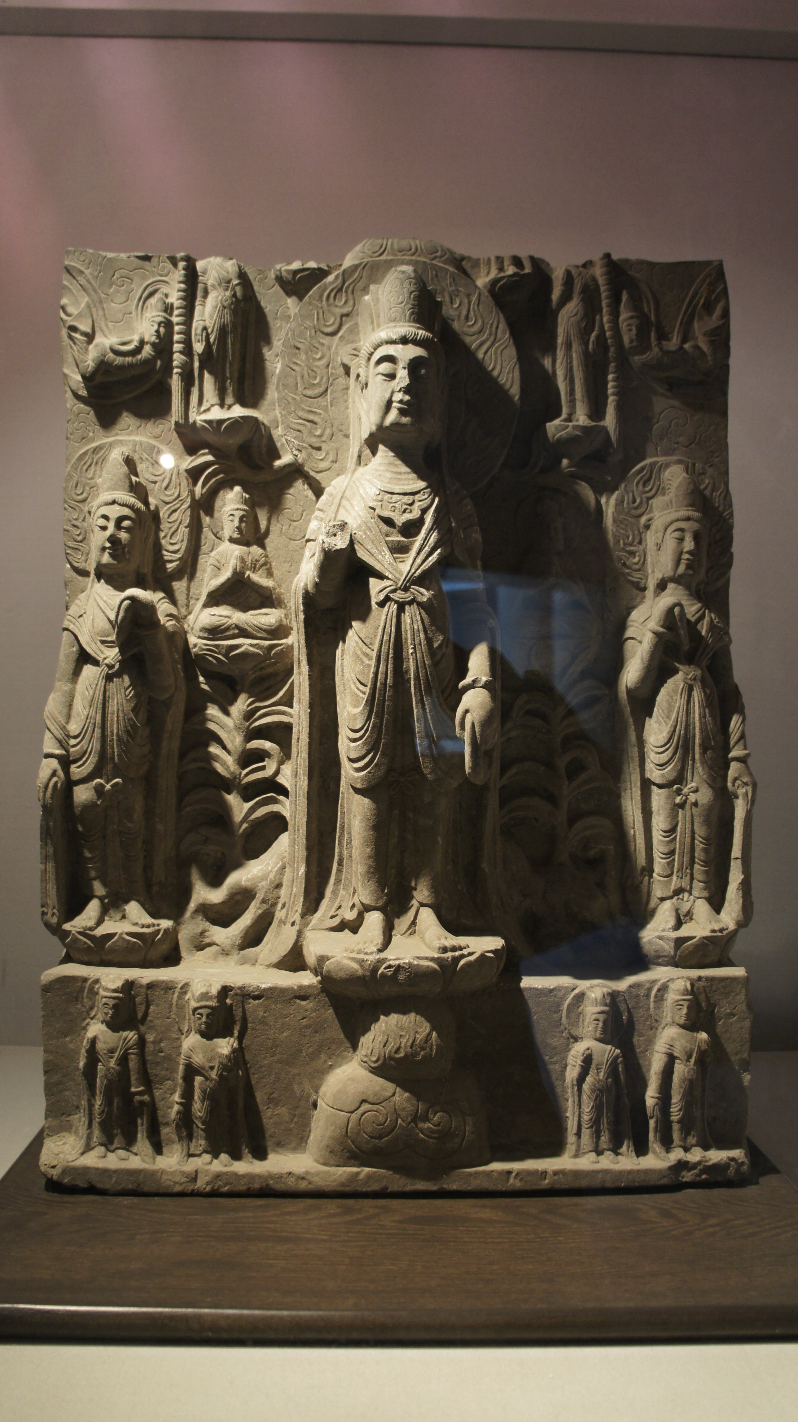 Bodhisattvas stone statue from the Northern Qi (550 - 557 AD), excavated at Zhengzhou, Henan.